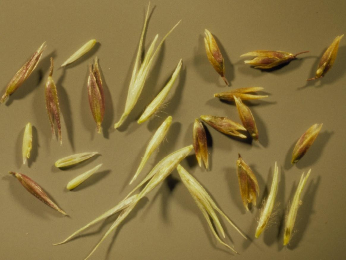 Agrostis stolonifera fruits